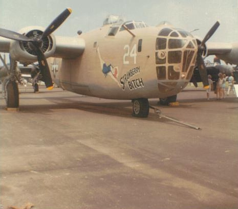 I took photo myself with Kodak camera.